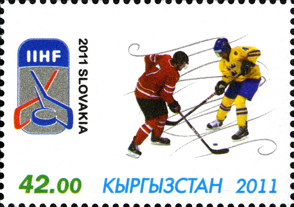 Stamps of Kyrgyzstan, 2011